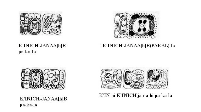 Writing variants of Pacal's name